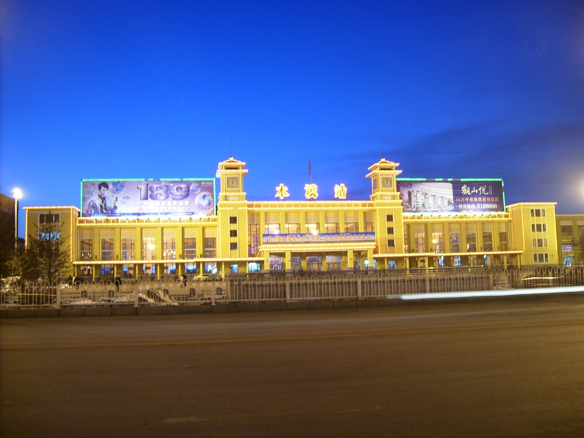 Benxi Railway Station in the night